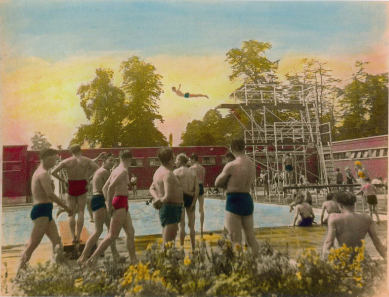 Photograph, colourized, taken in 1938. As well as being reprinted in the Telegraph in 2006, this same photograph was used in Smith, Janet (2006) Liquid assets: the lidos and open air swimming pools of Britain, English Heritage, p. p.138 ISBN: 9780954744502. in both cases the photograph was dated as 1938 and identified as Brockwell Lido